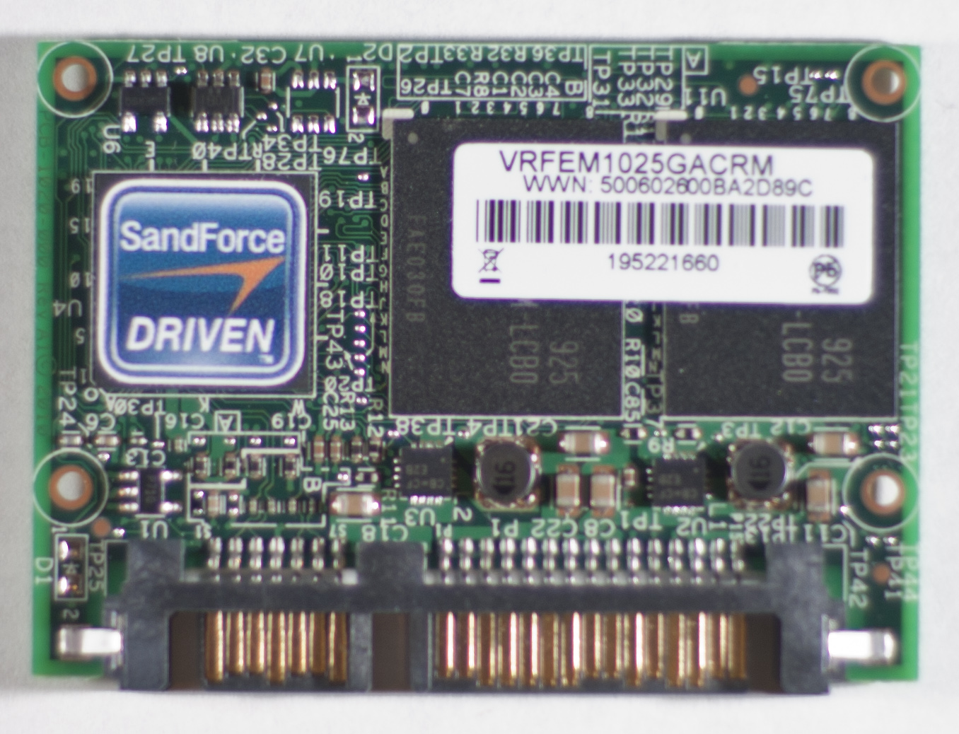 Image of a Viking Modular SATA SSD in an MO-297 form factor